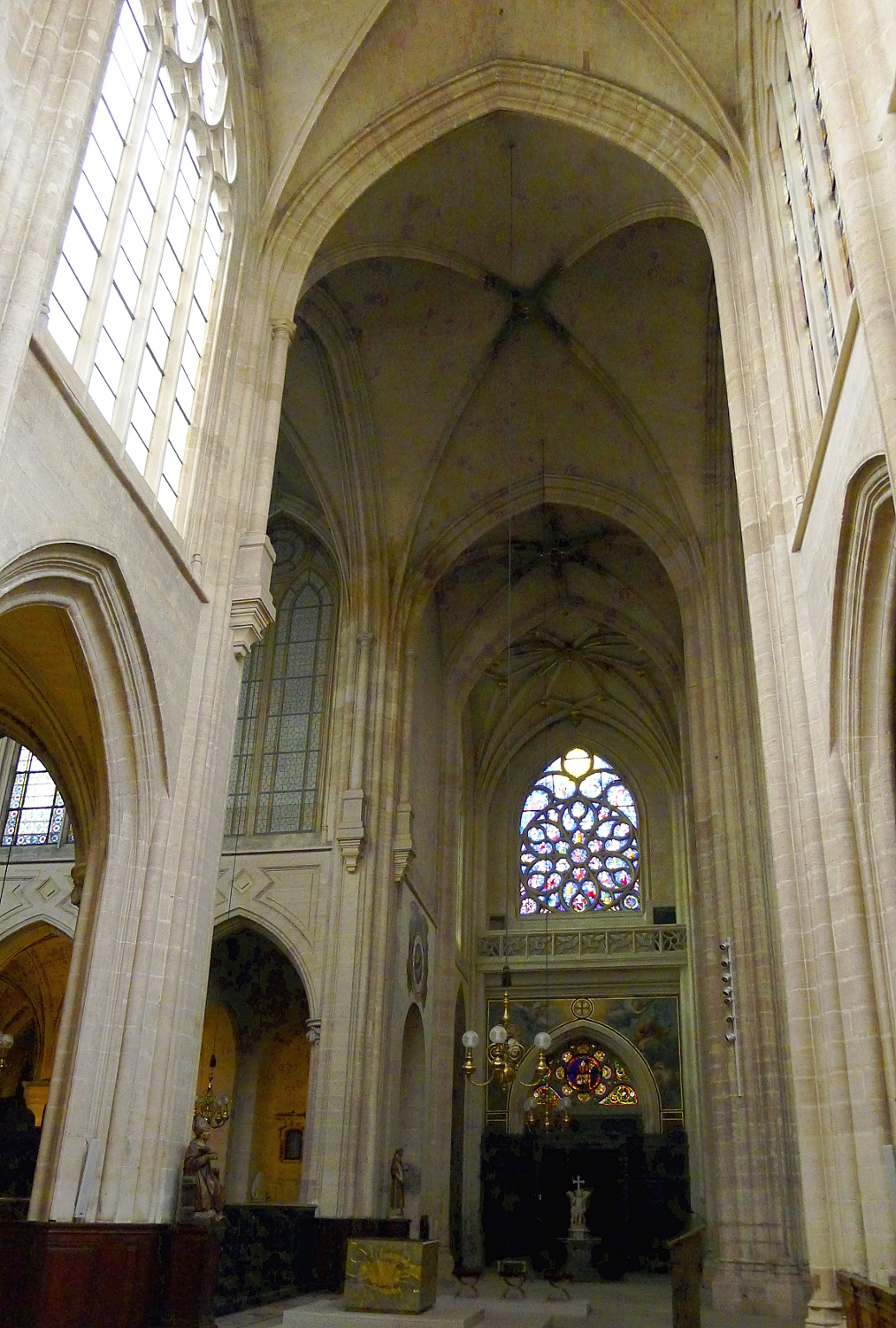 Saint-Germain l'Auxerrois church - Paris